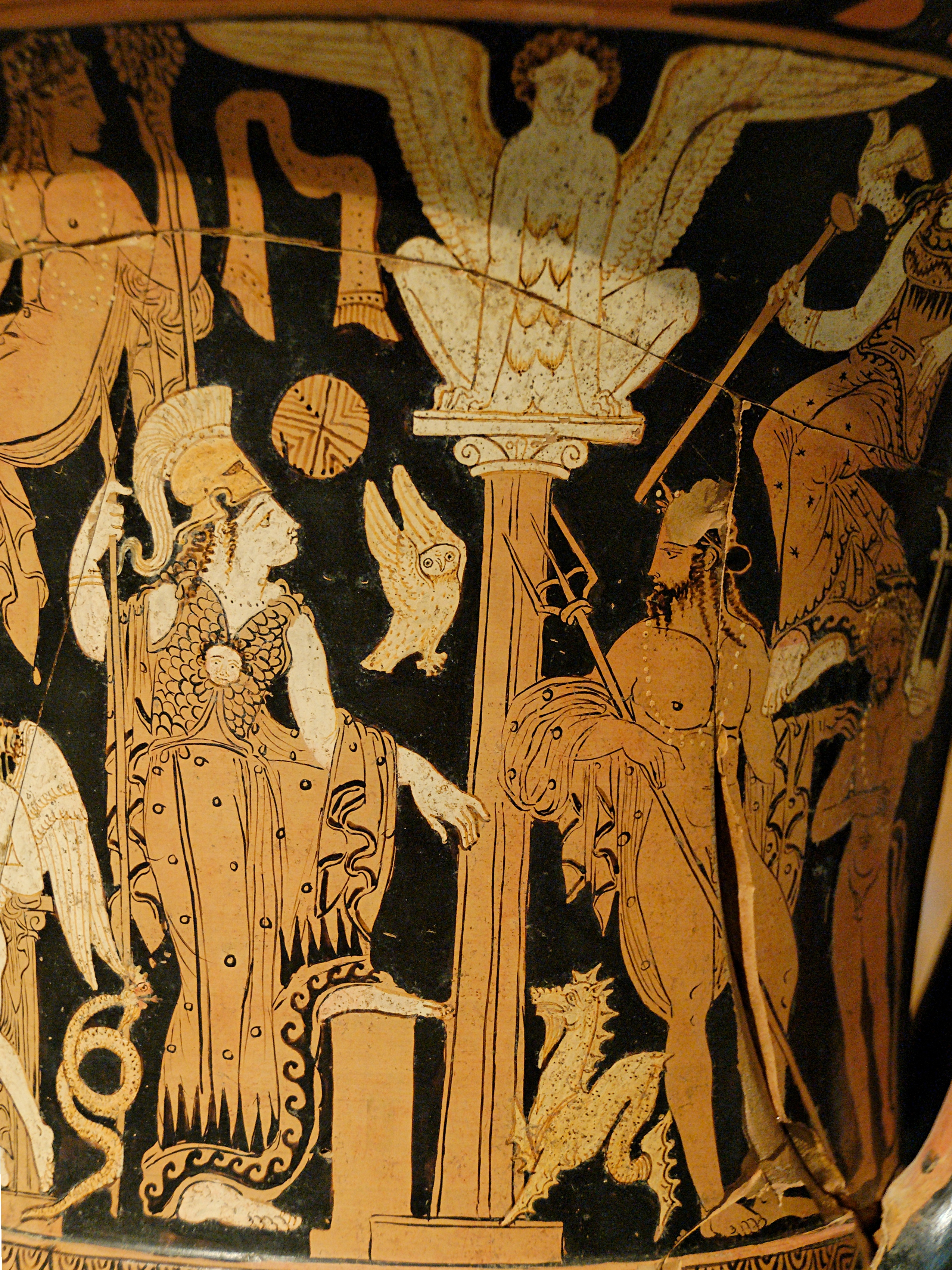 Athena and Poseidon. Side A from a Faliscan red-figure volute-krater.